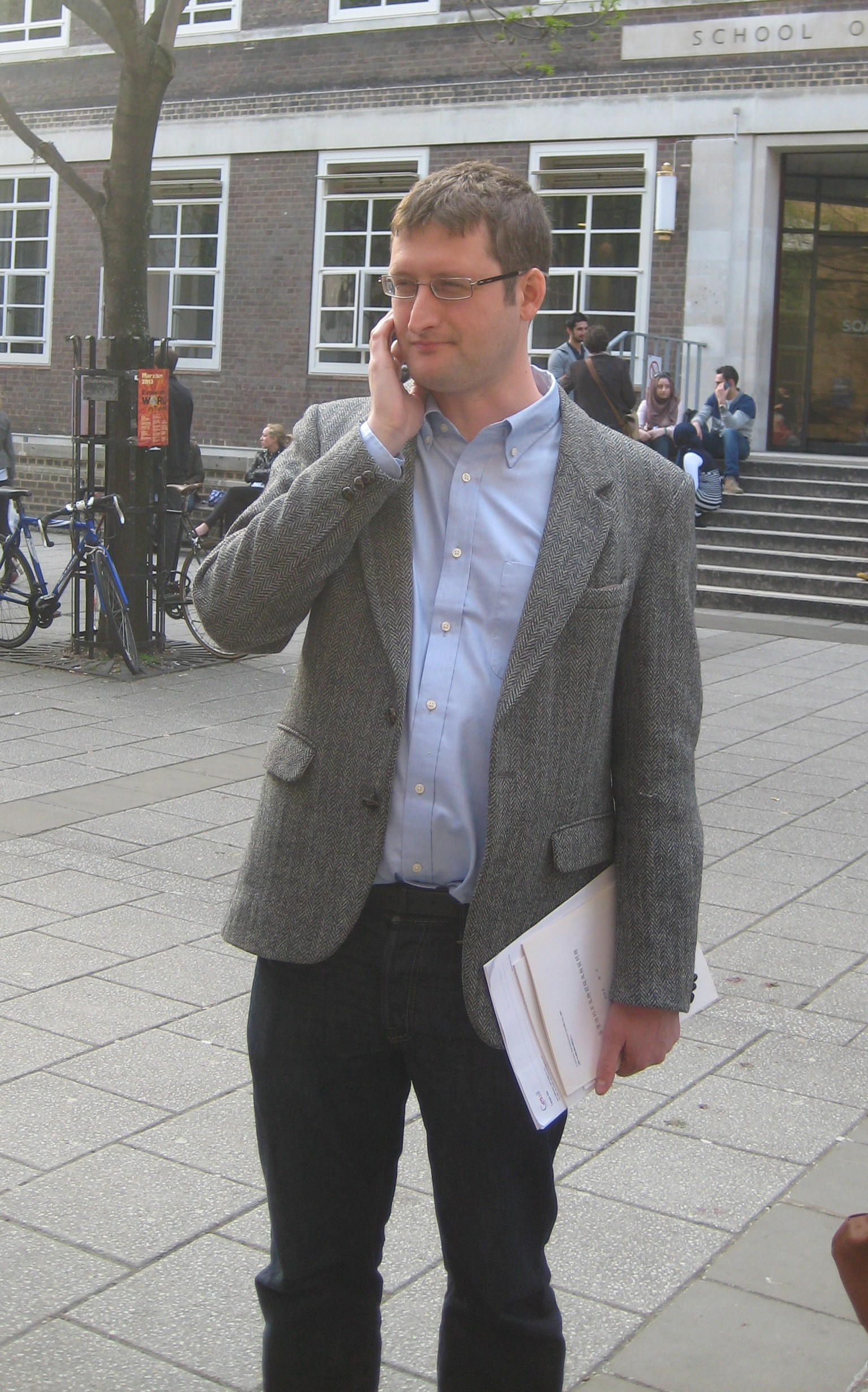 Nathan Hill at the Day of Tangut Studies event at SOAS, University of London, 25 April 2013.